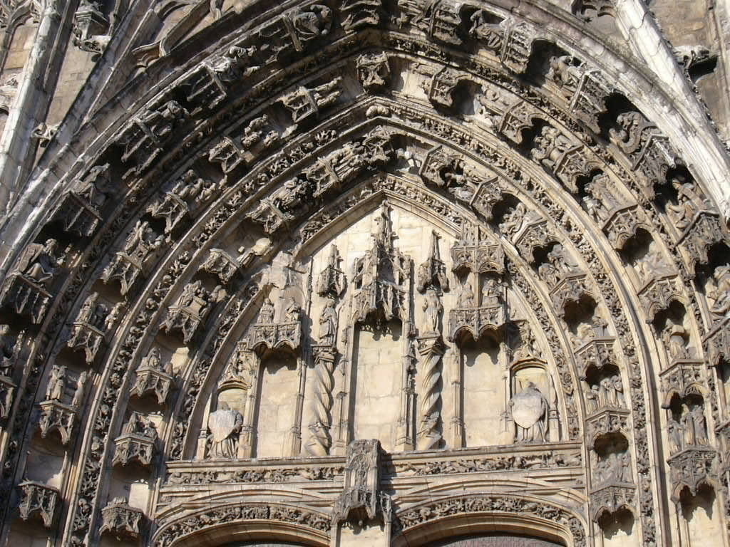 Streets of Vienne